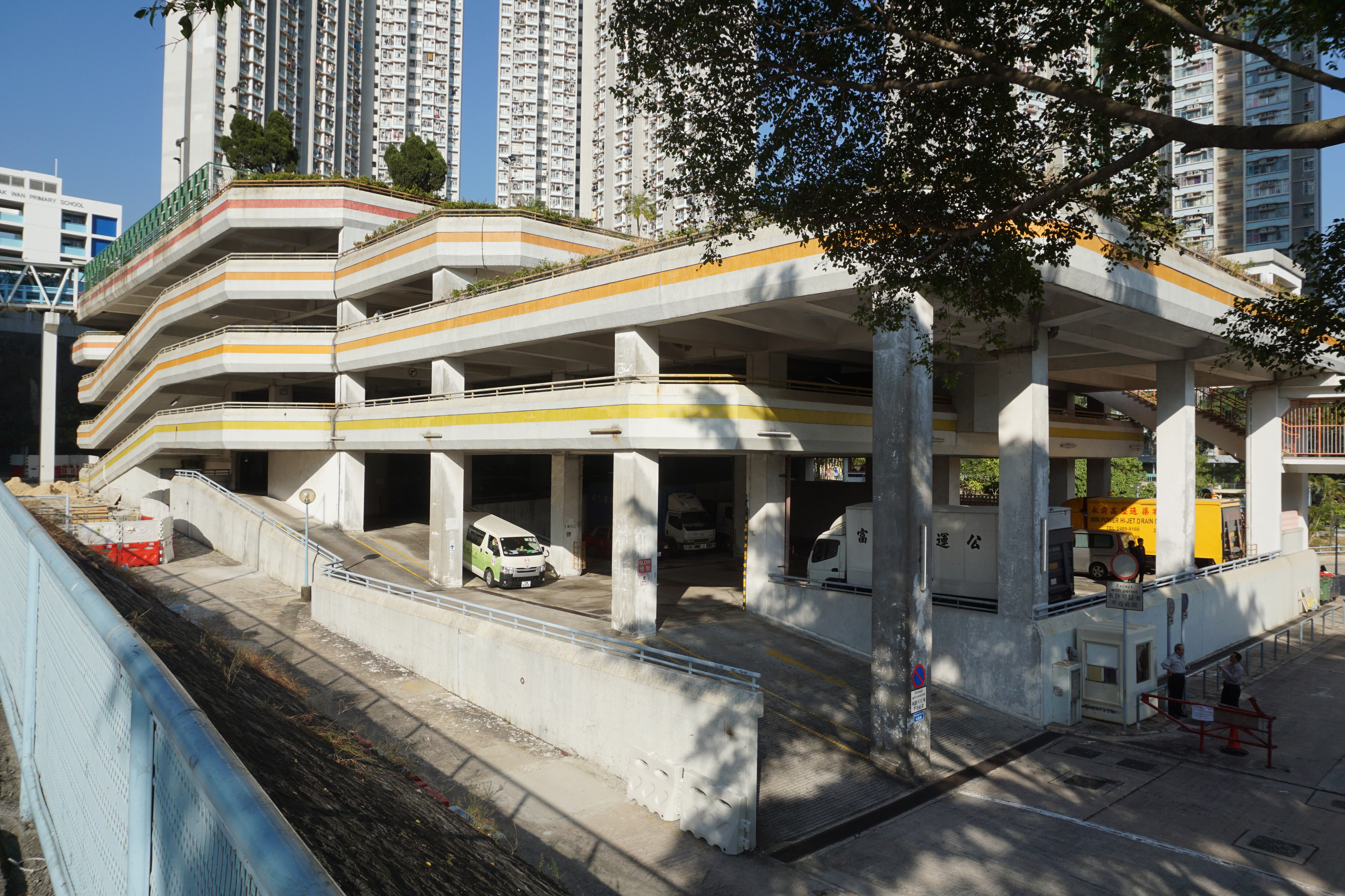 Cheung Hang Estate in Tsing Yi, Hong Kong.